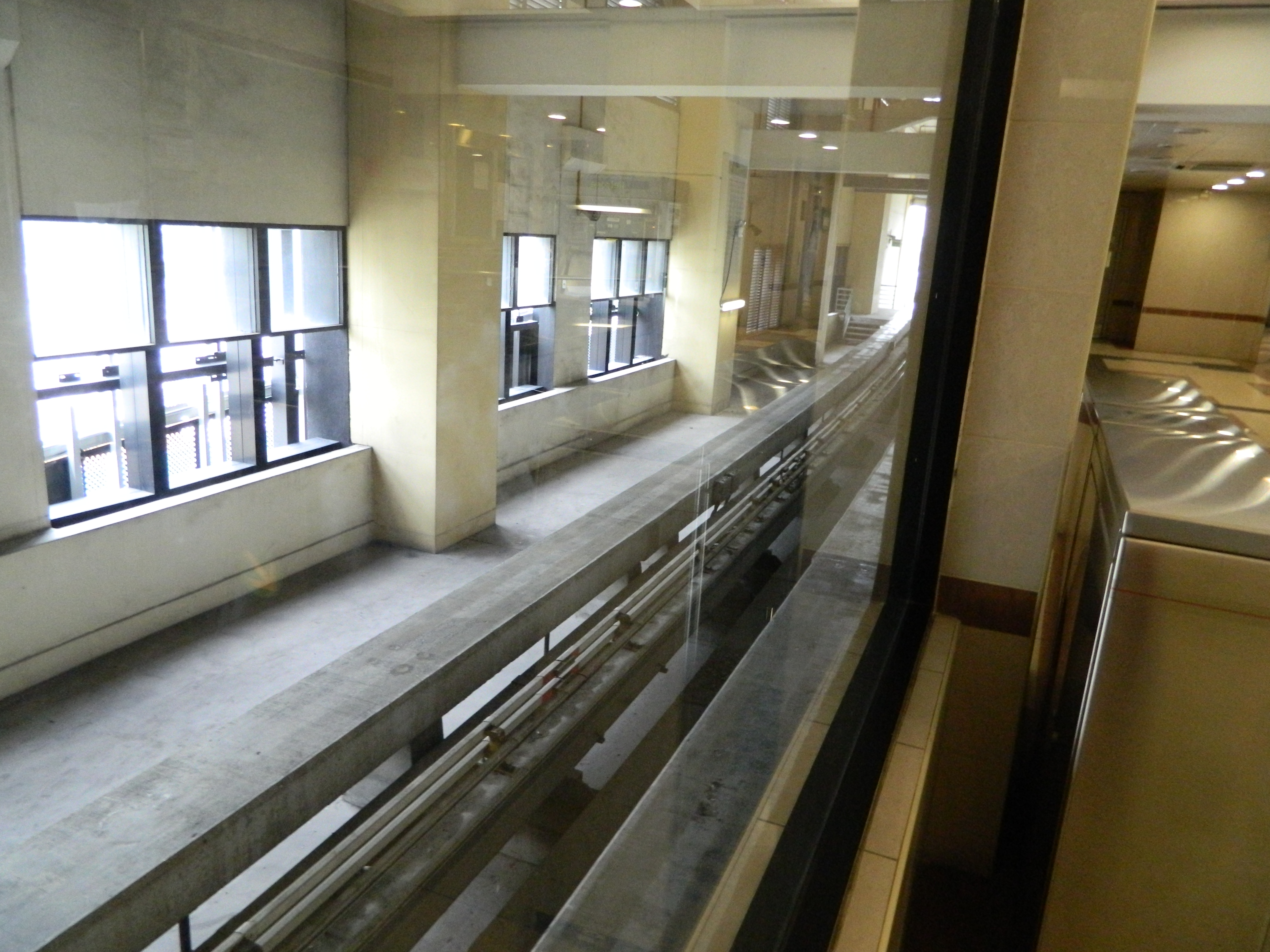 Express track. Trains may use this track to head towards the depot without passing through the station.